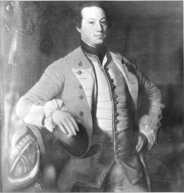 Captain George Scott c. 1758 by John Singleton Copley, The Brook